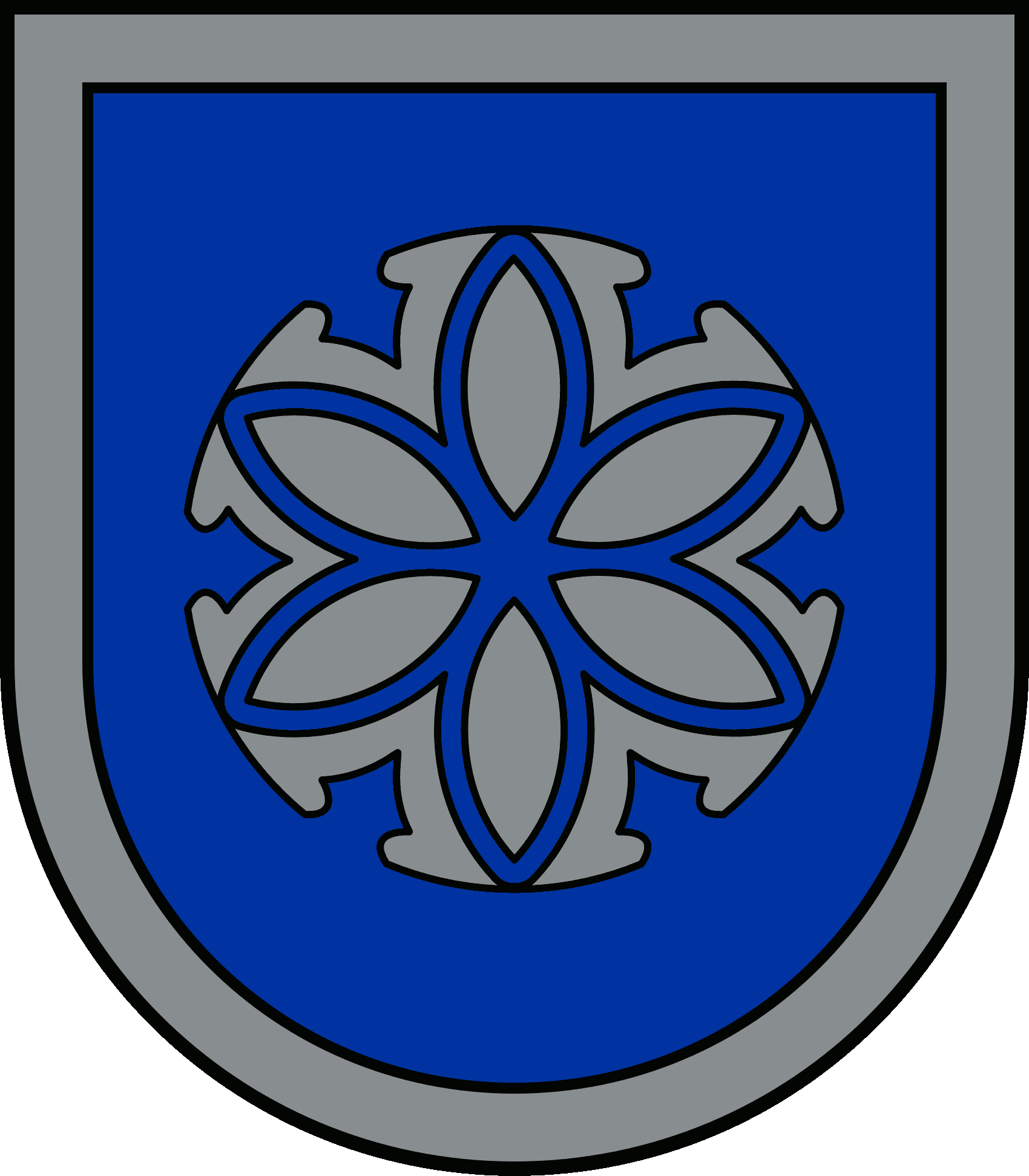 Coat of arms of Riebiņi Municipality, Latvia